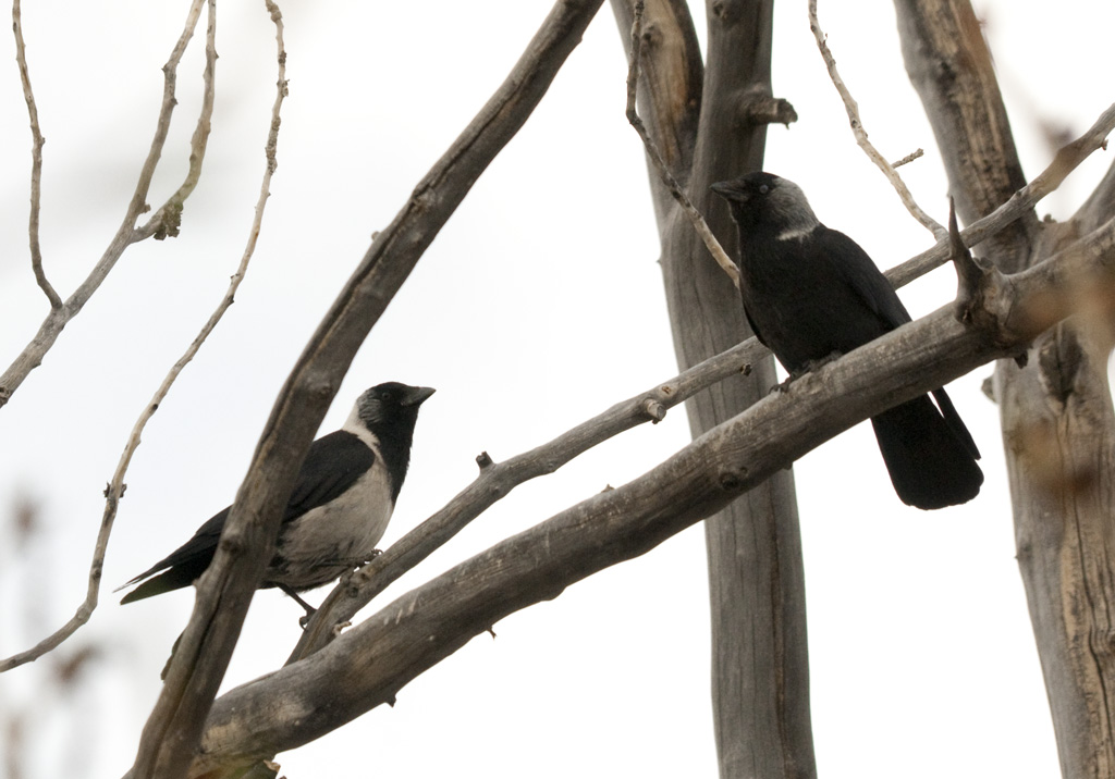 Adult Daurian Jackdaw (Corvus dauuricus) on the left and adult Western Jackdaw (Corvus monedula) on the right. Russia, Republic of Altai, Tydtueryk valley.